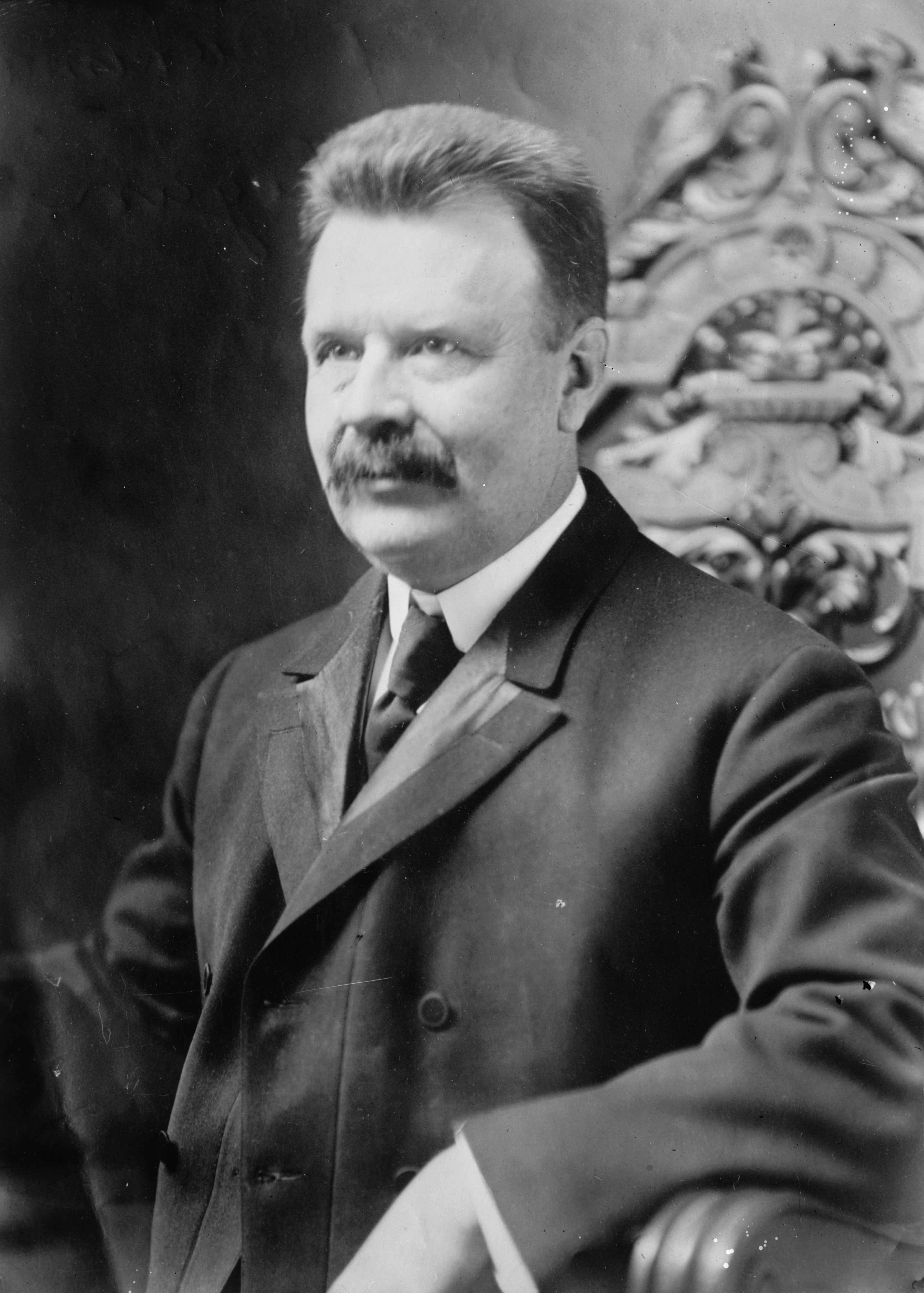 Gerrit J. Diekema, US Representative from Michigan